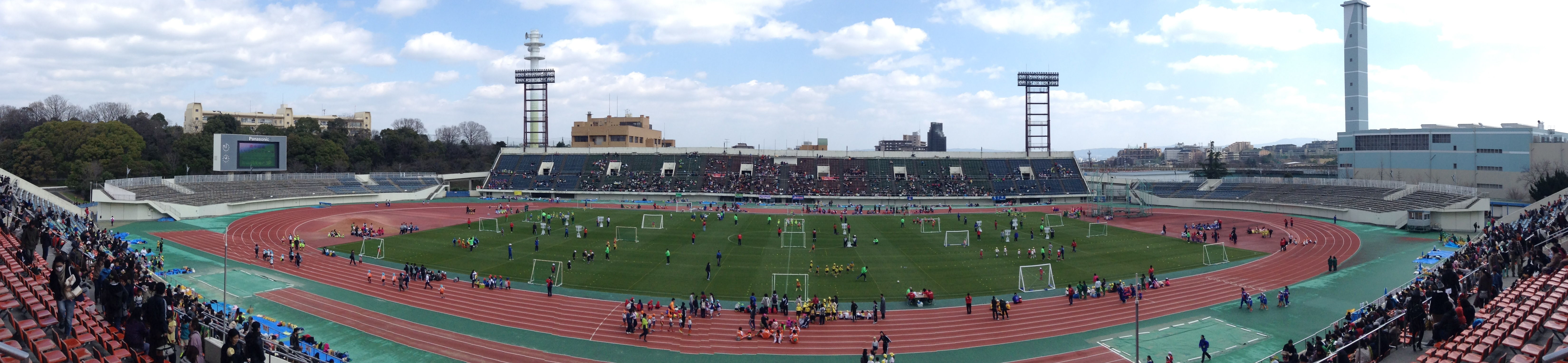 The panoramic photograph of Expo '70 Commemorative Stadium